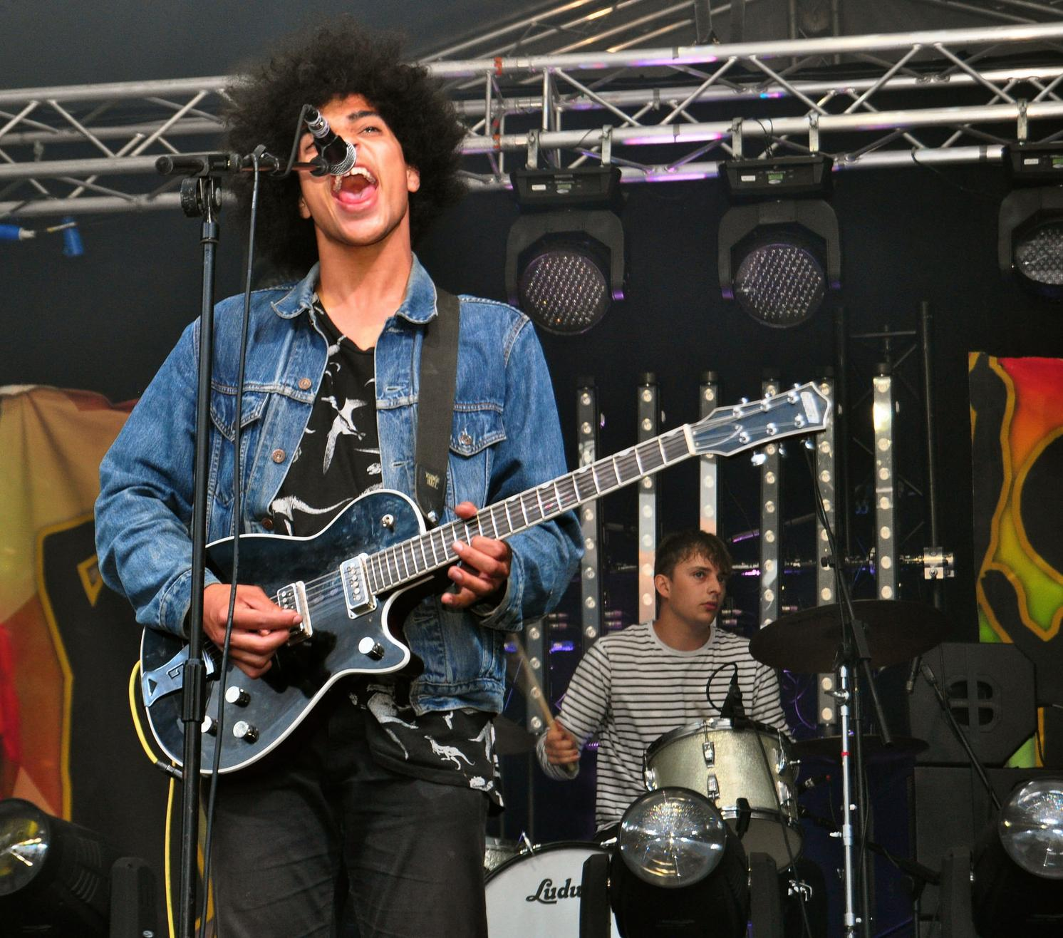 Childhood live at World Festival (ROTW), Hitchin 2014.